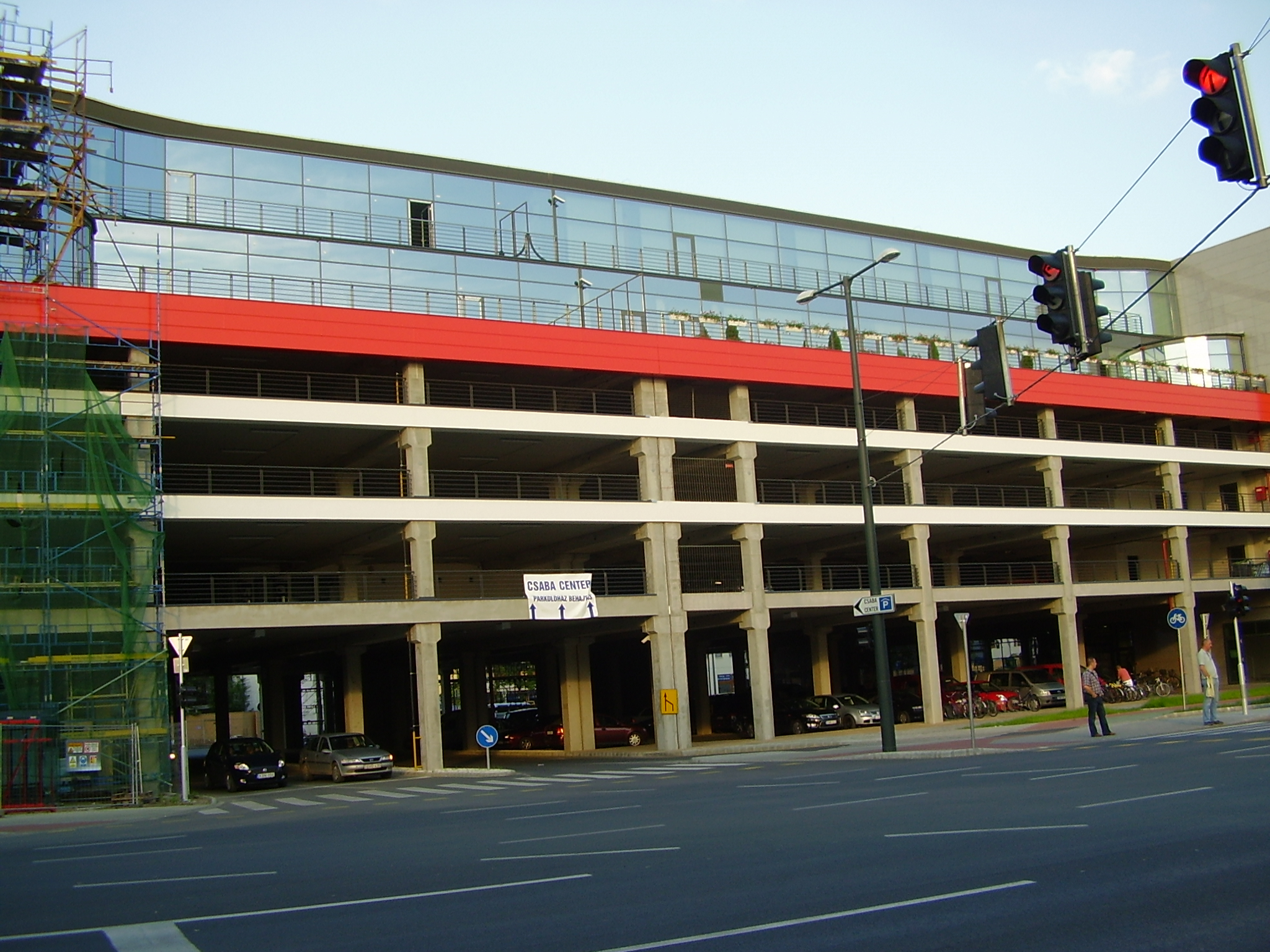 Parking garage of the shopping mall Csaba Center in Békéscsaba